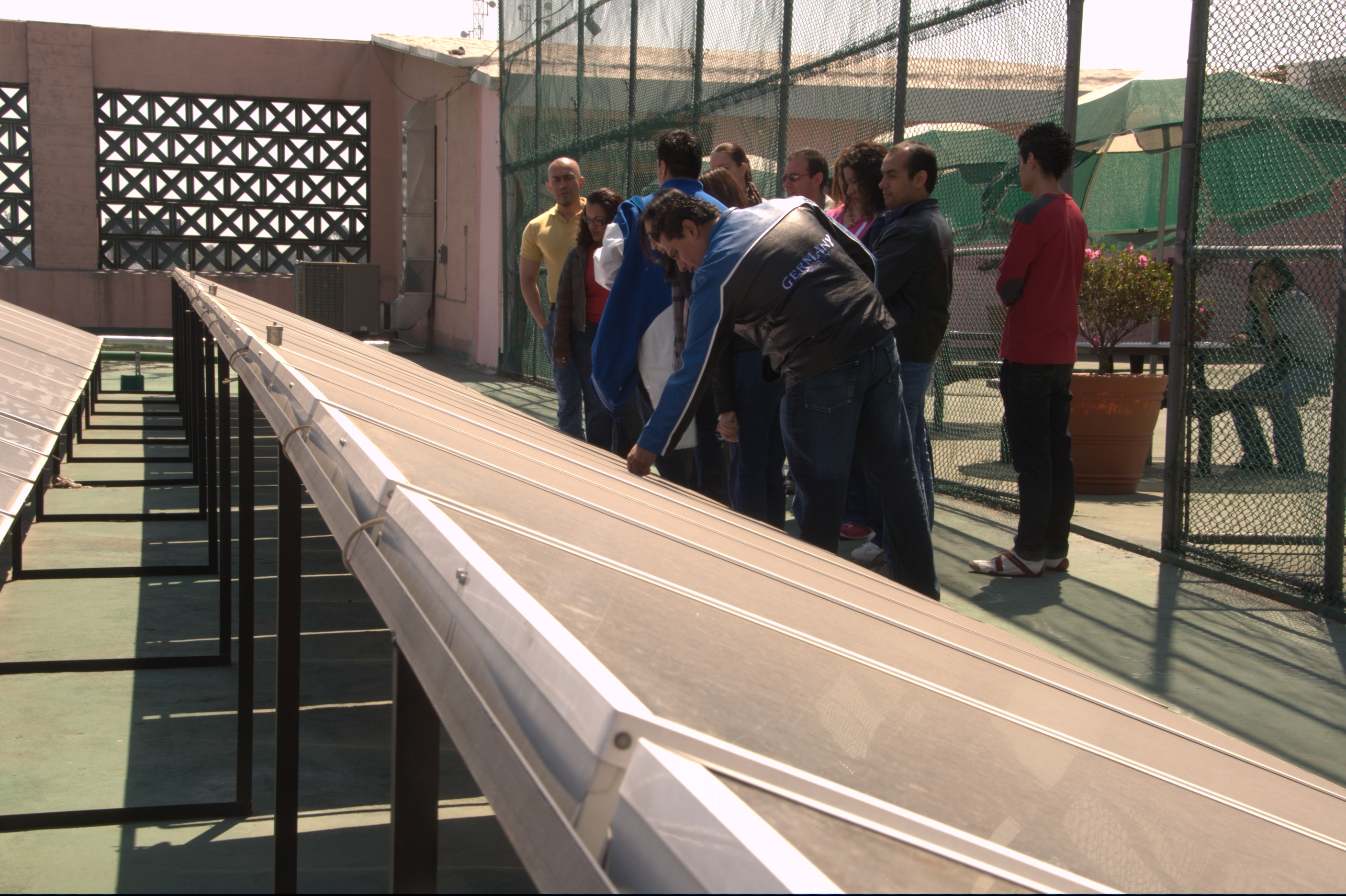 1 Participantes of the sustainability course at DAEs roof for the inspection of solar panels